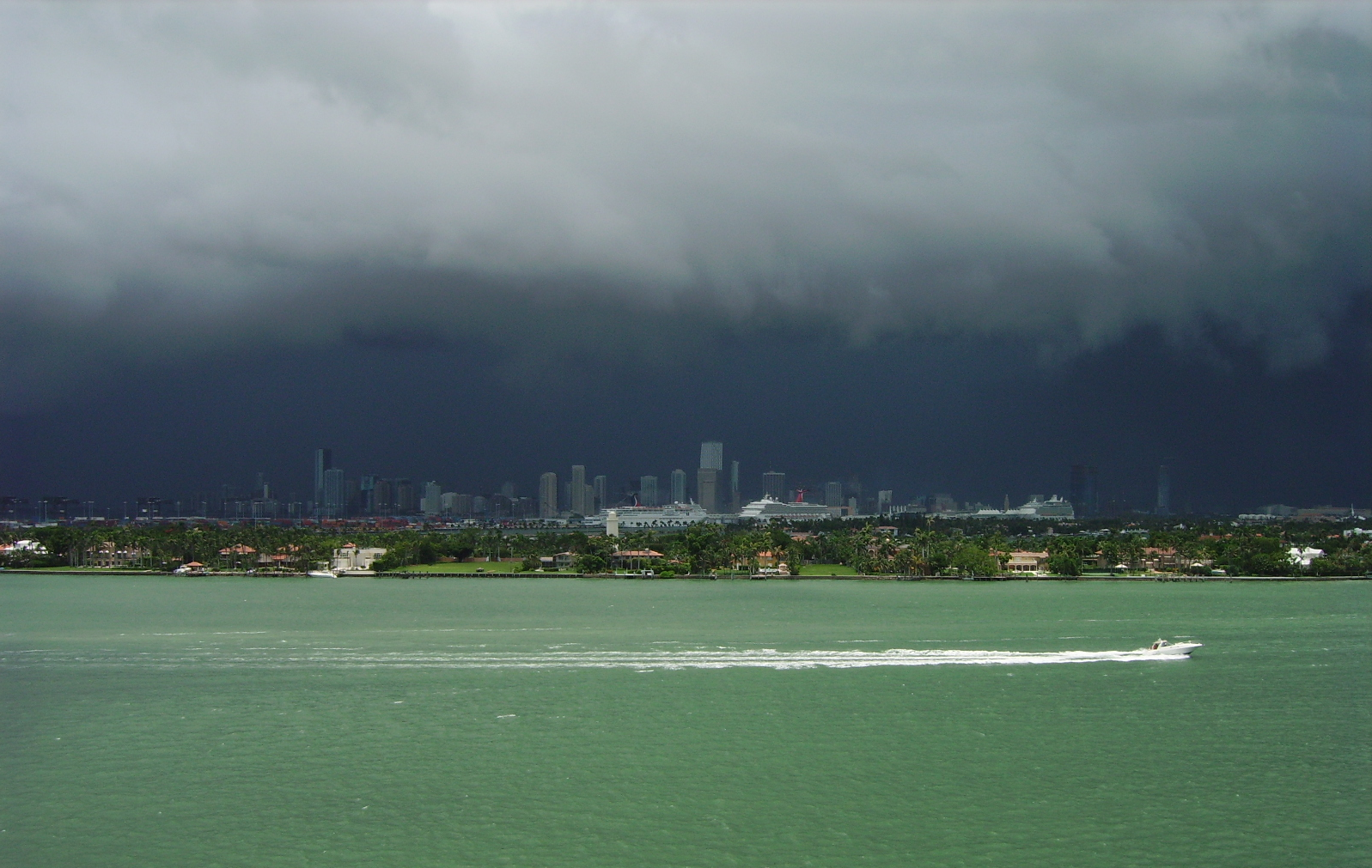 Miami, FL. Typical summer afternoon thunderstorm rolling in from the Everglades.